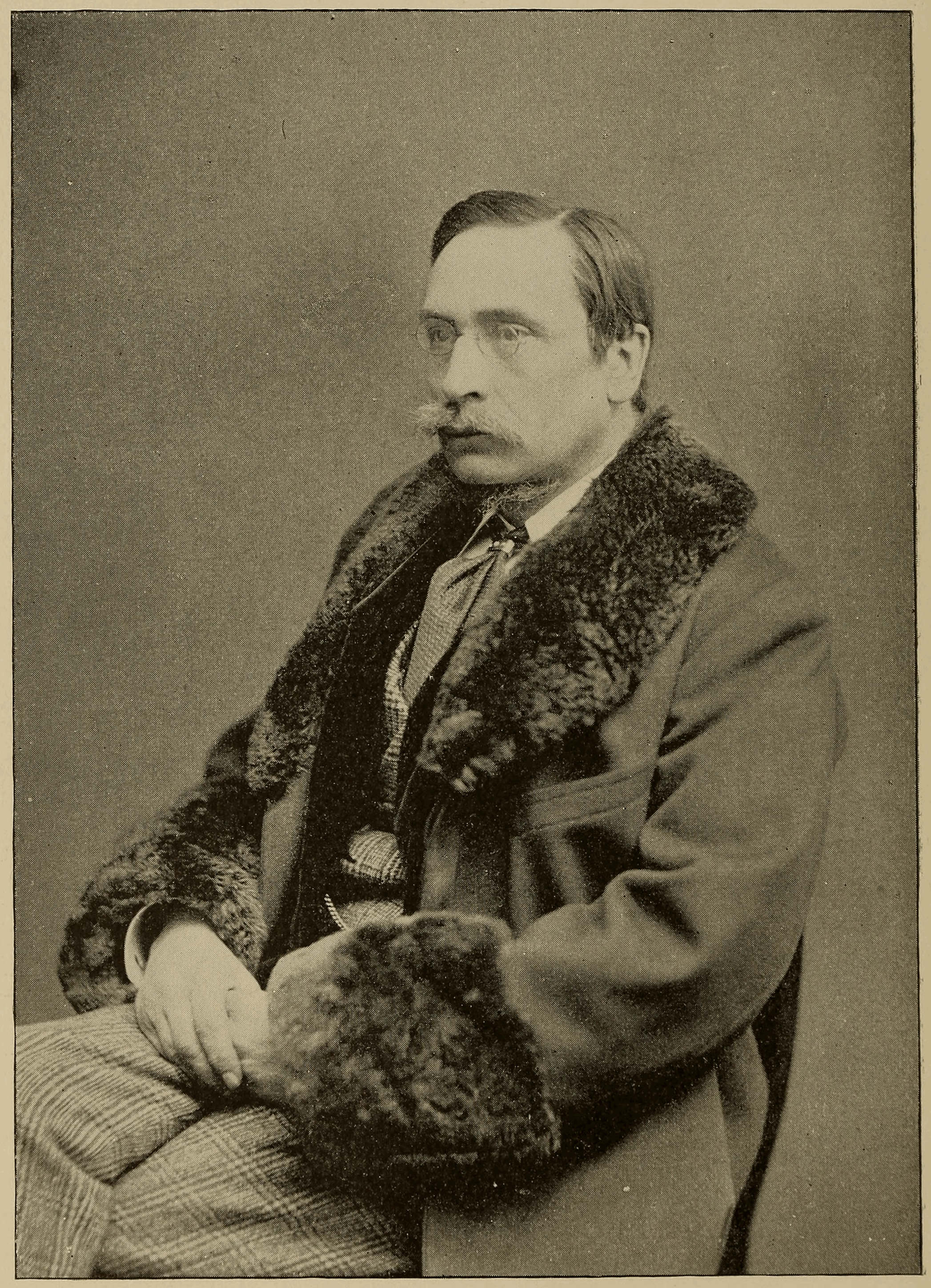 Cassier's Magazine of November 1894 had an article on page 76-77, titled W. Cawthorne Unwin. It was accompanied by this illustration (cropped without signature), on page 2.